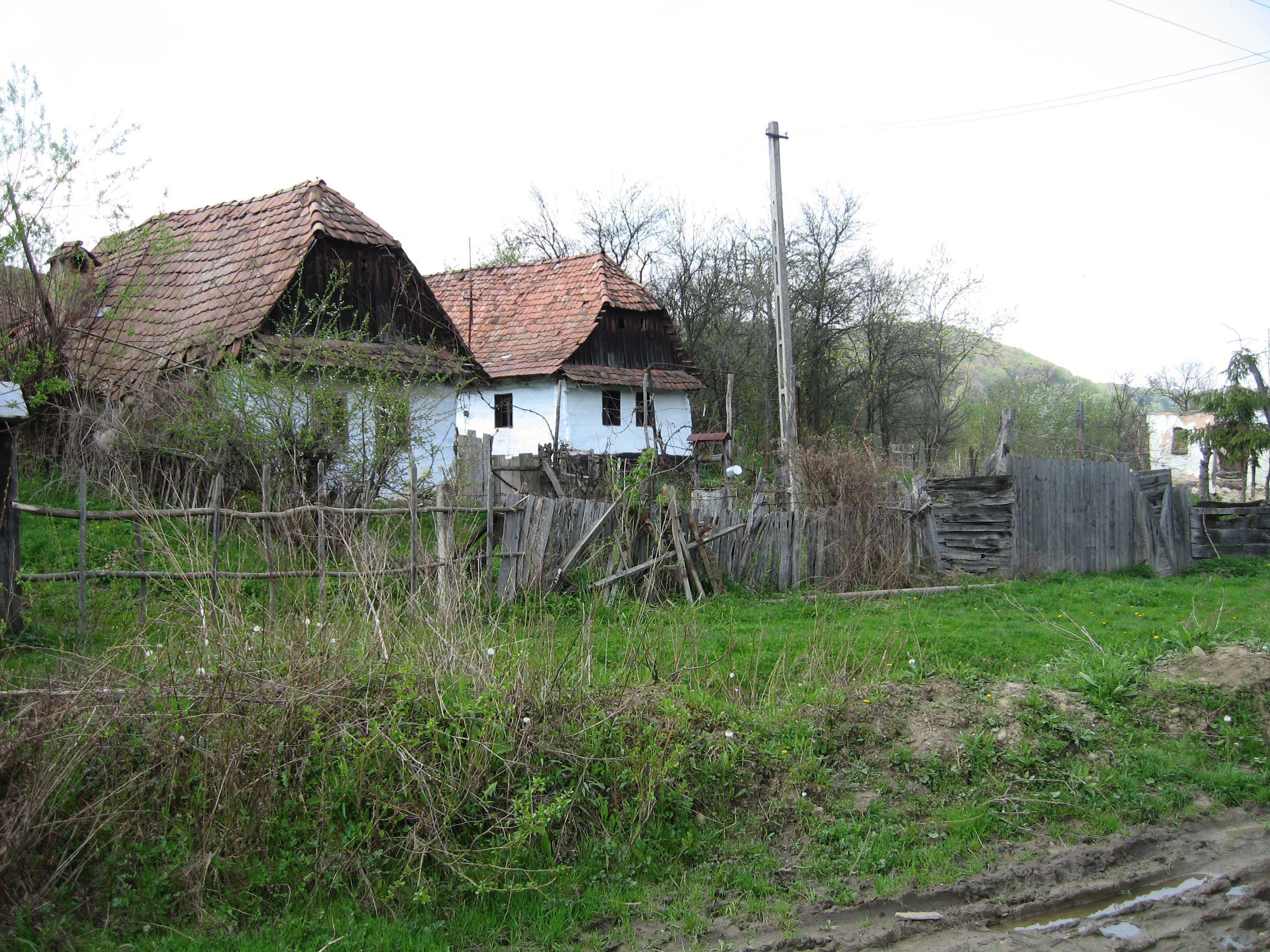 Sapartoc houses, Albeşti, Mureş, Romania